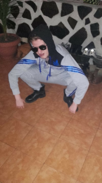 Squatting slav